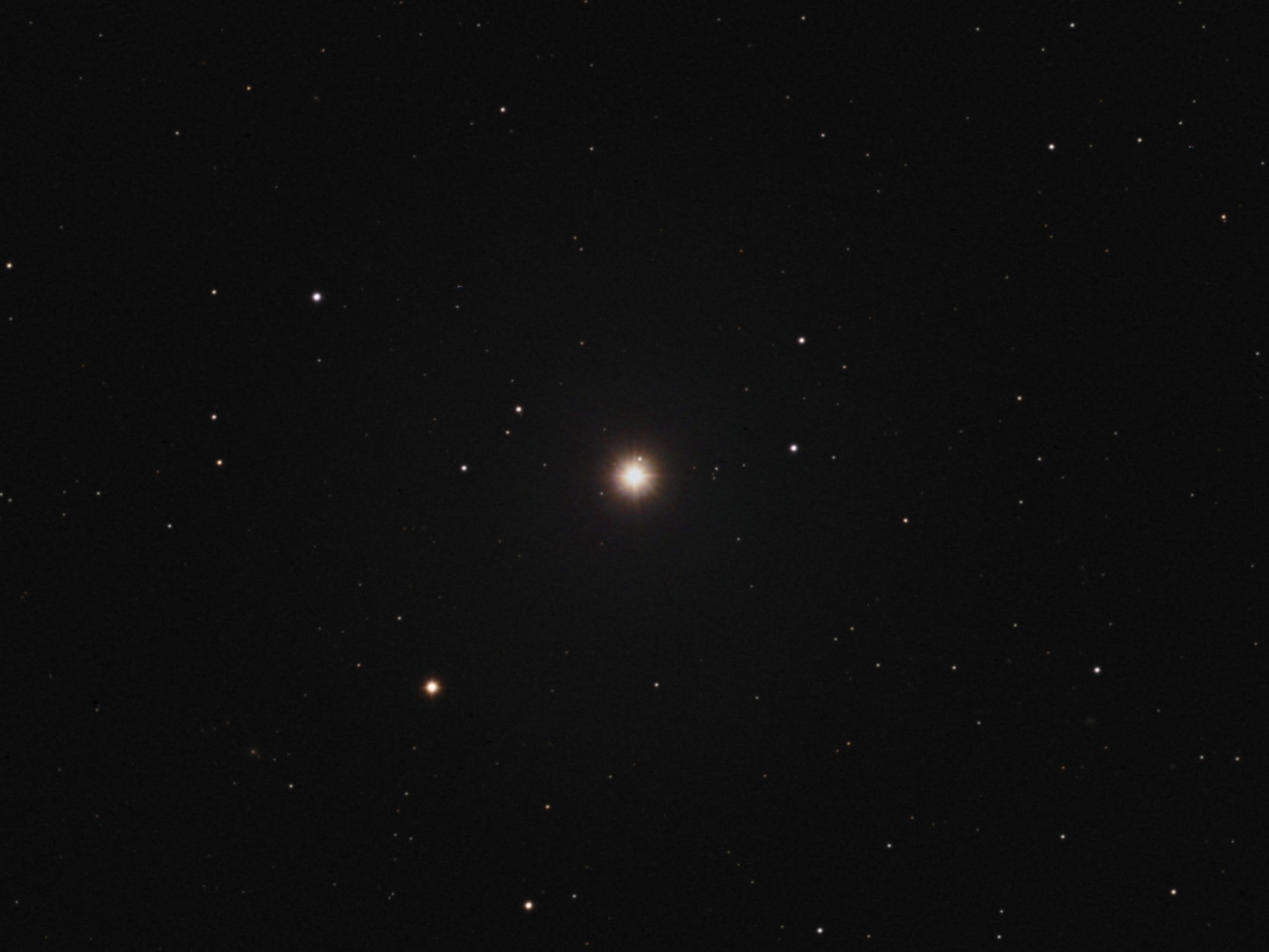 Rho Bootis in optical light